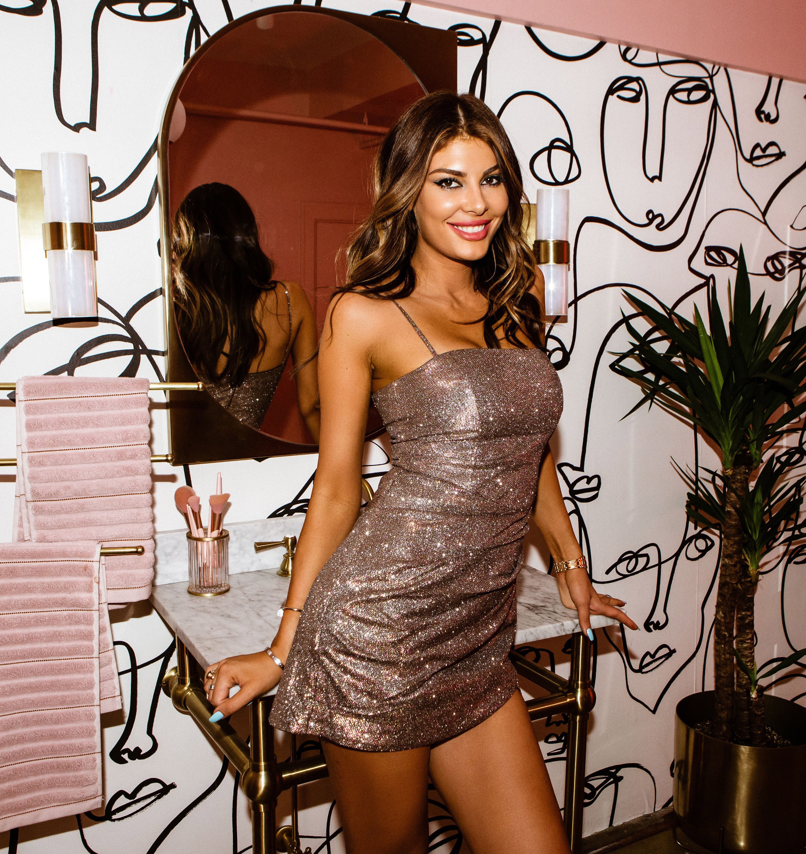 Angela Martini enjoying a night out over the holidays.